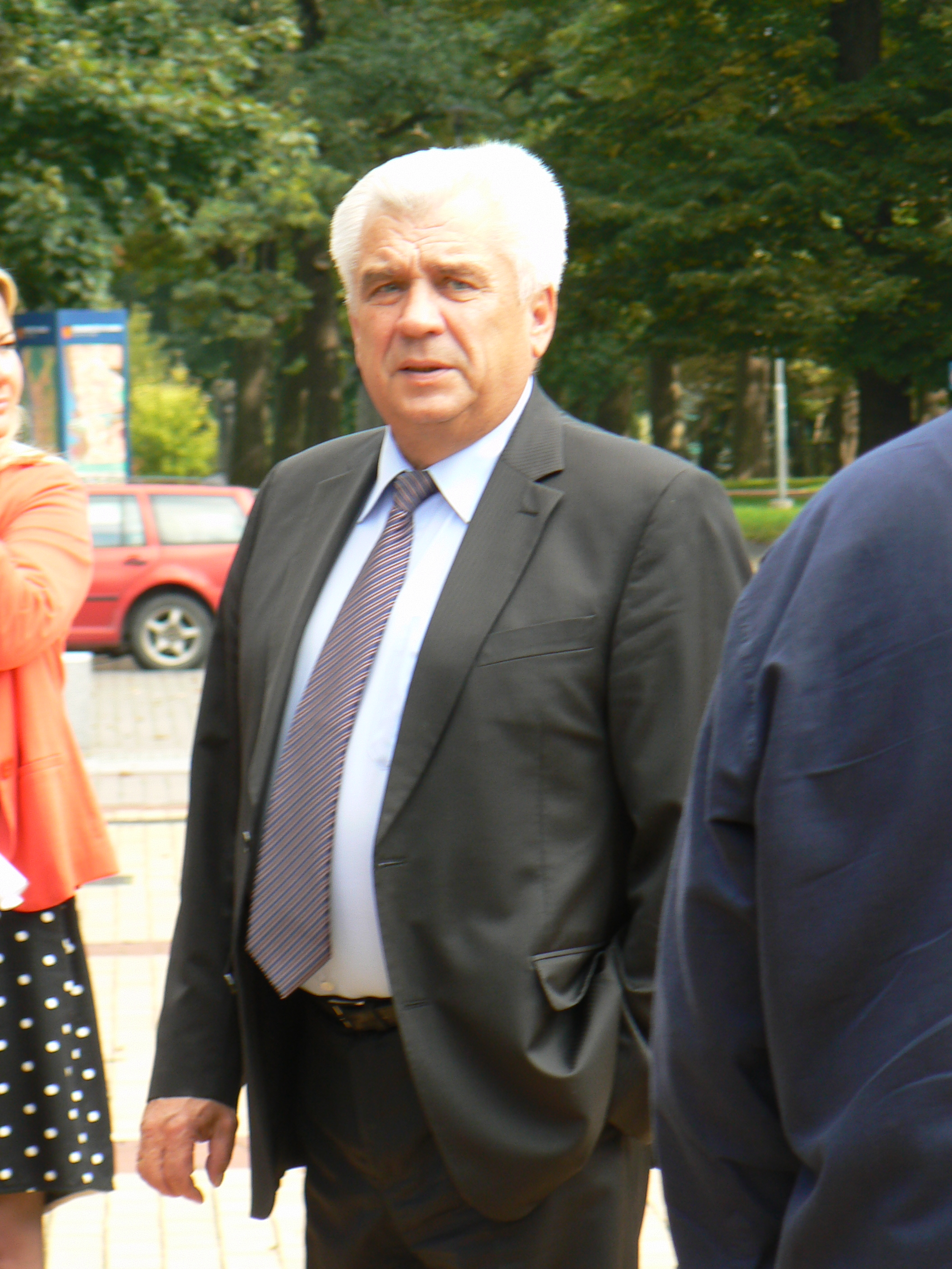 Mayor (in 2001 - 2011) of Klaipėda city Rimantas Taraškevičius